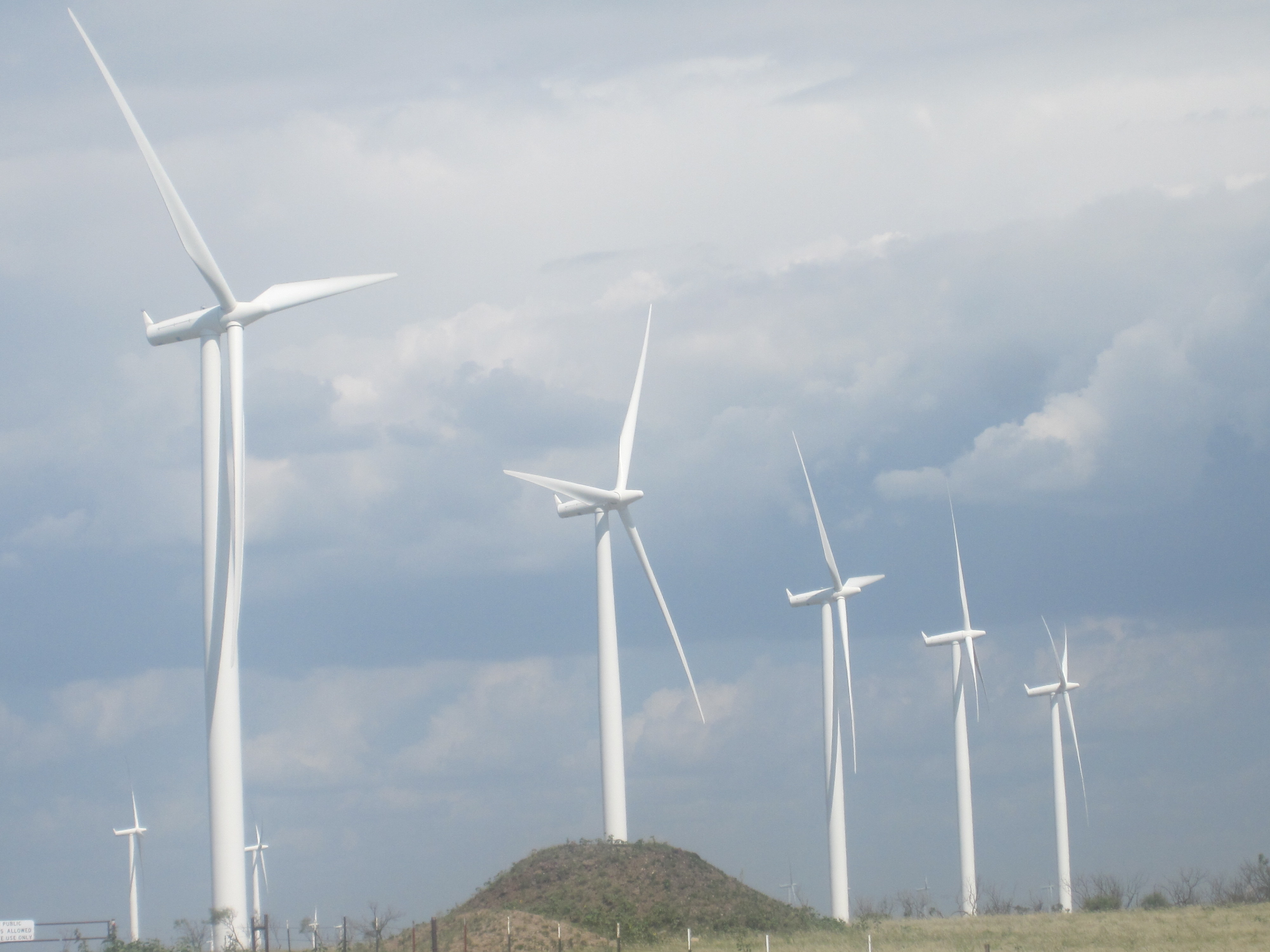 I took photo with Canon camera in Oldham County, TX.